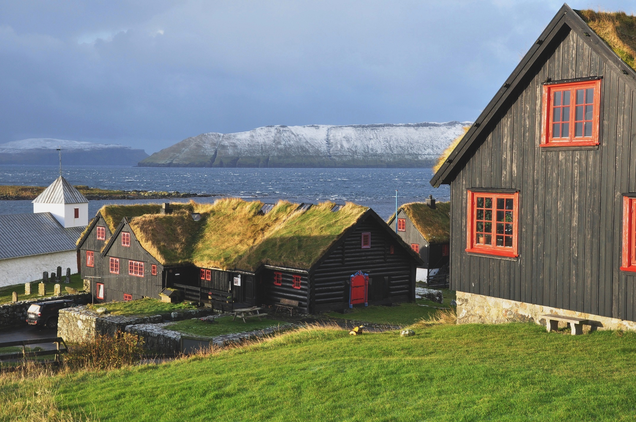 The village of Kirkjubøur on the island of Streymoy (Faroe Islands). At left is Saint Olav's Church from the 12th century. The central building is Kirkjubøargarður (also called Roykstovan), the worlds' oldest still inhabited wooden house, from the 11th century. It's also a museum. In the background the islands Sandoy and Hestur.